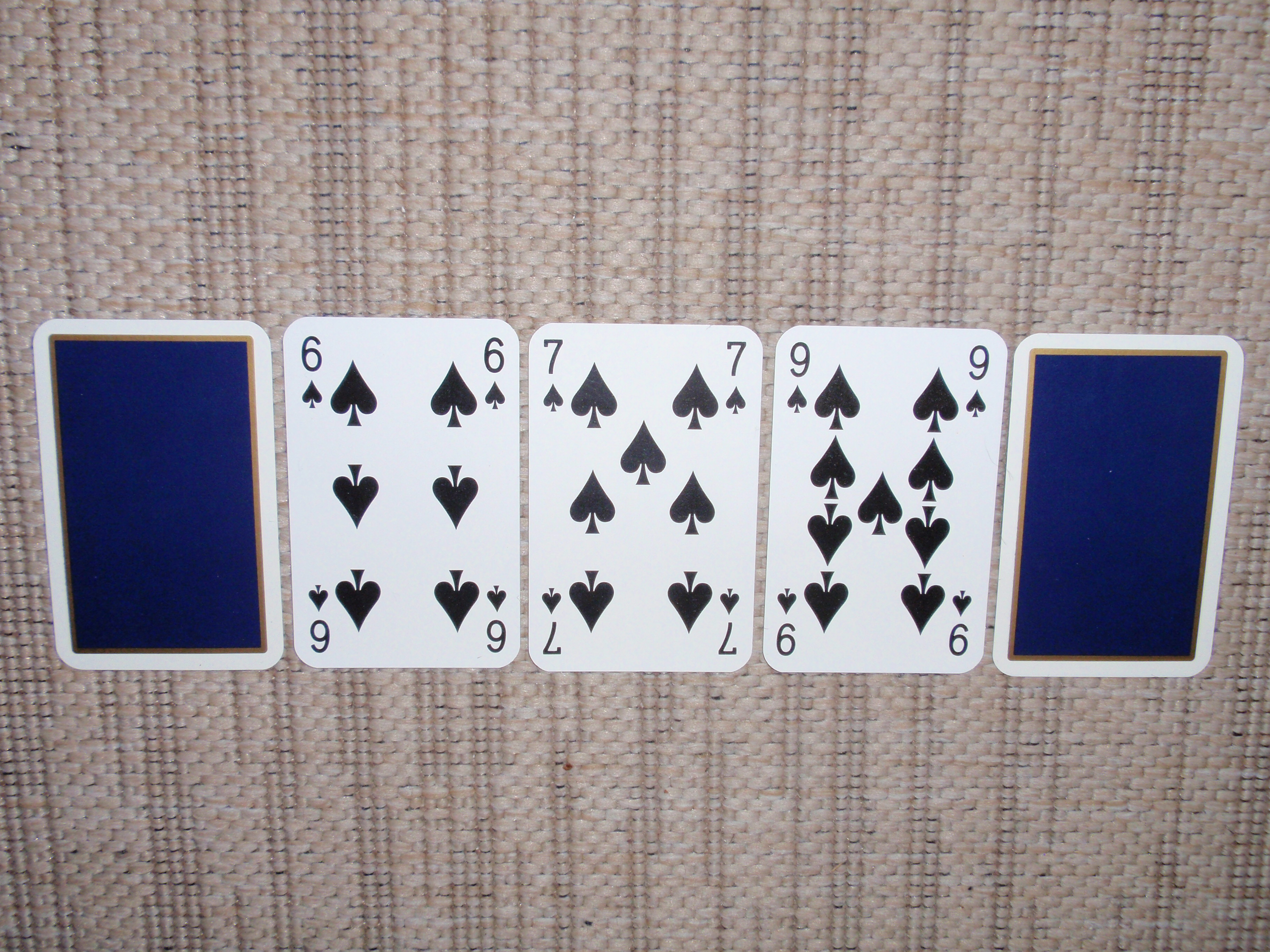 5 Card Stud - One Down, Three Up, One Down/1-3-1